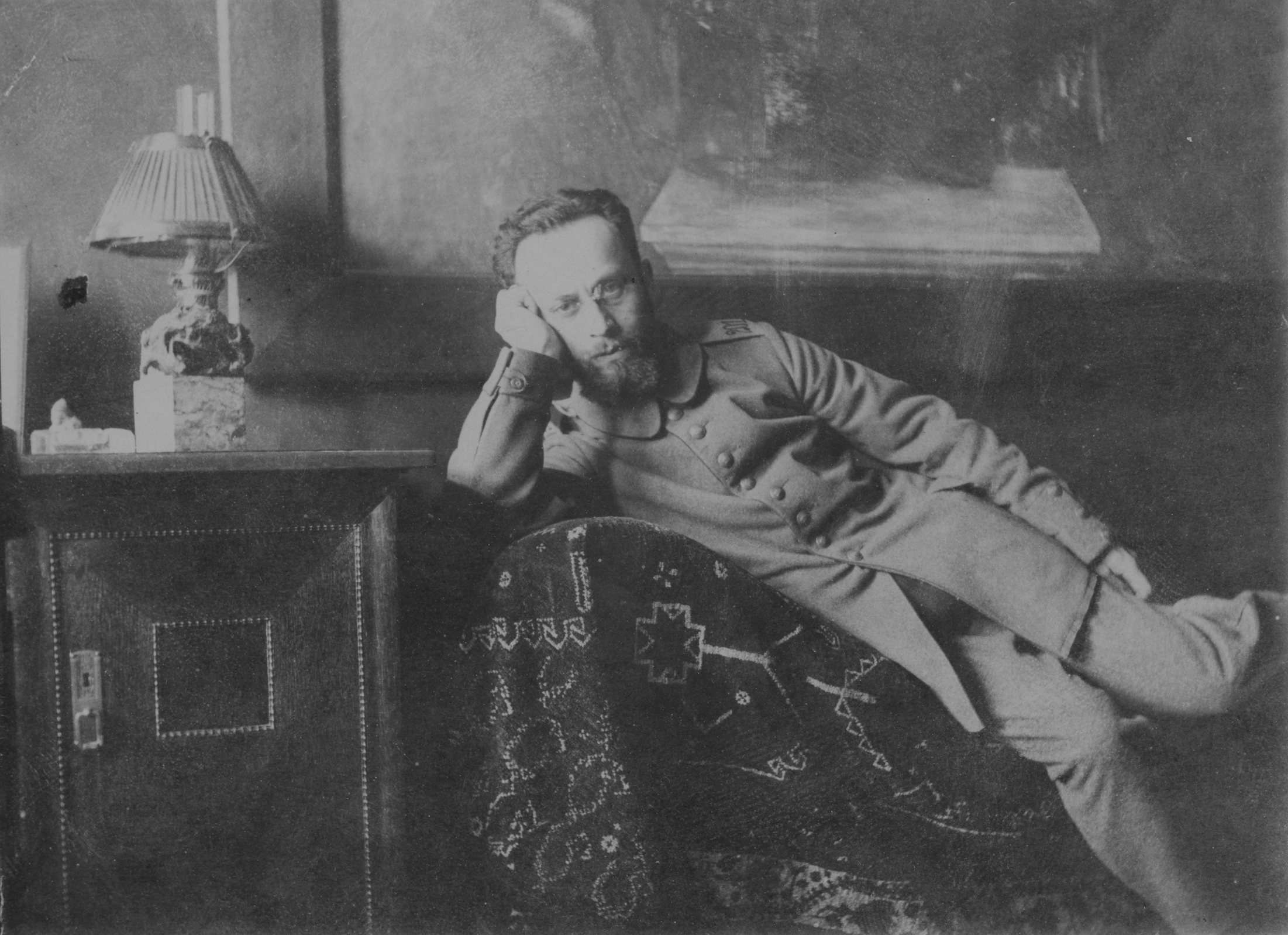 Gustav Wolf circa 1918